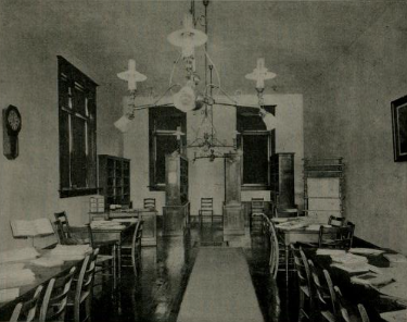 An early 20th century photograph of one of Delaware, Ohio's first libraries. The library was located within a Masonic Temple.